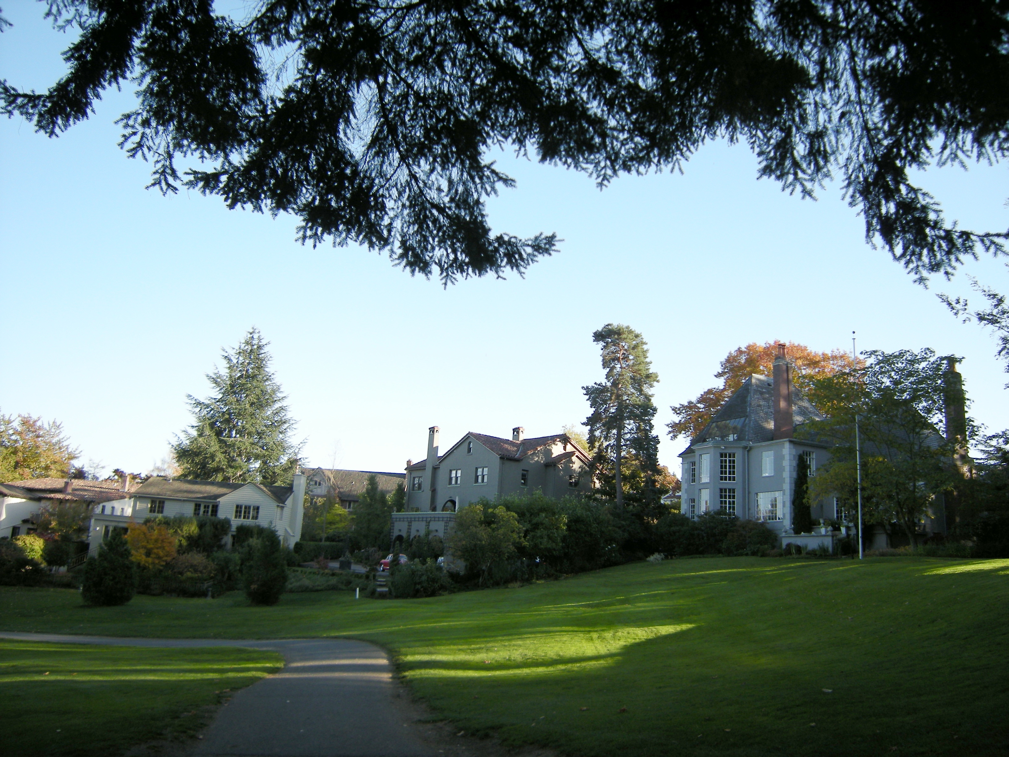 Some houses in the gated community Broadmoor, Seattle, Washington.